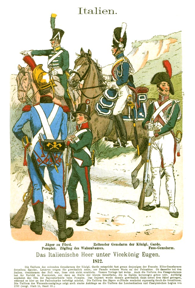 Italien. Das italienische Heer unter Vice-König Eugen. 1812